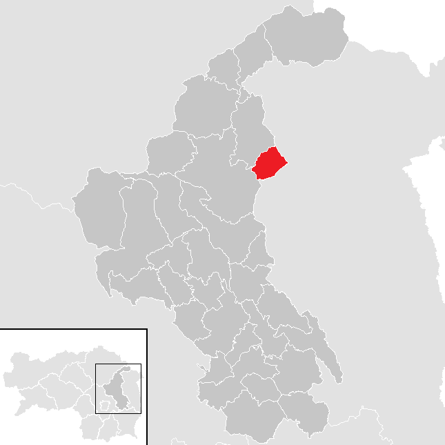 district Weiz